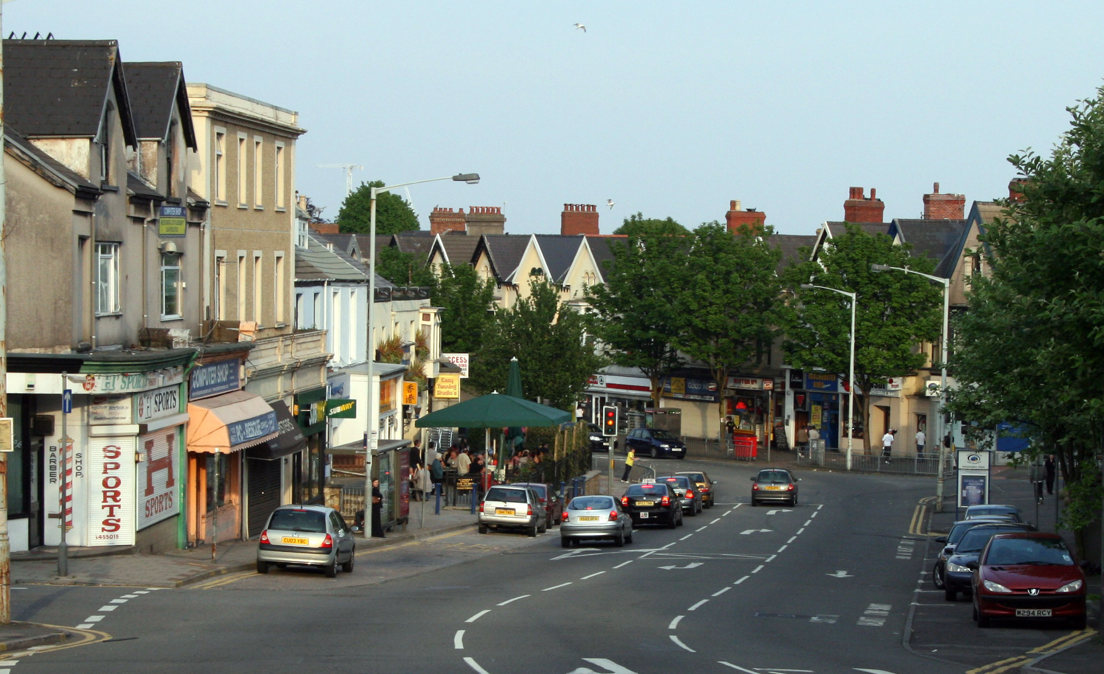 Uplands square in the evening